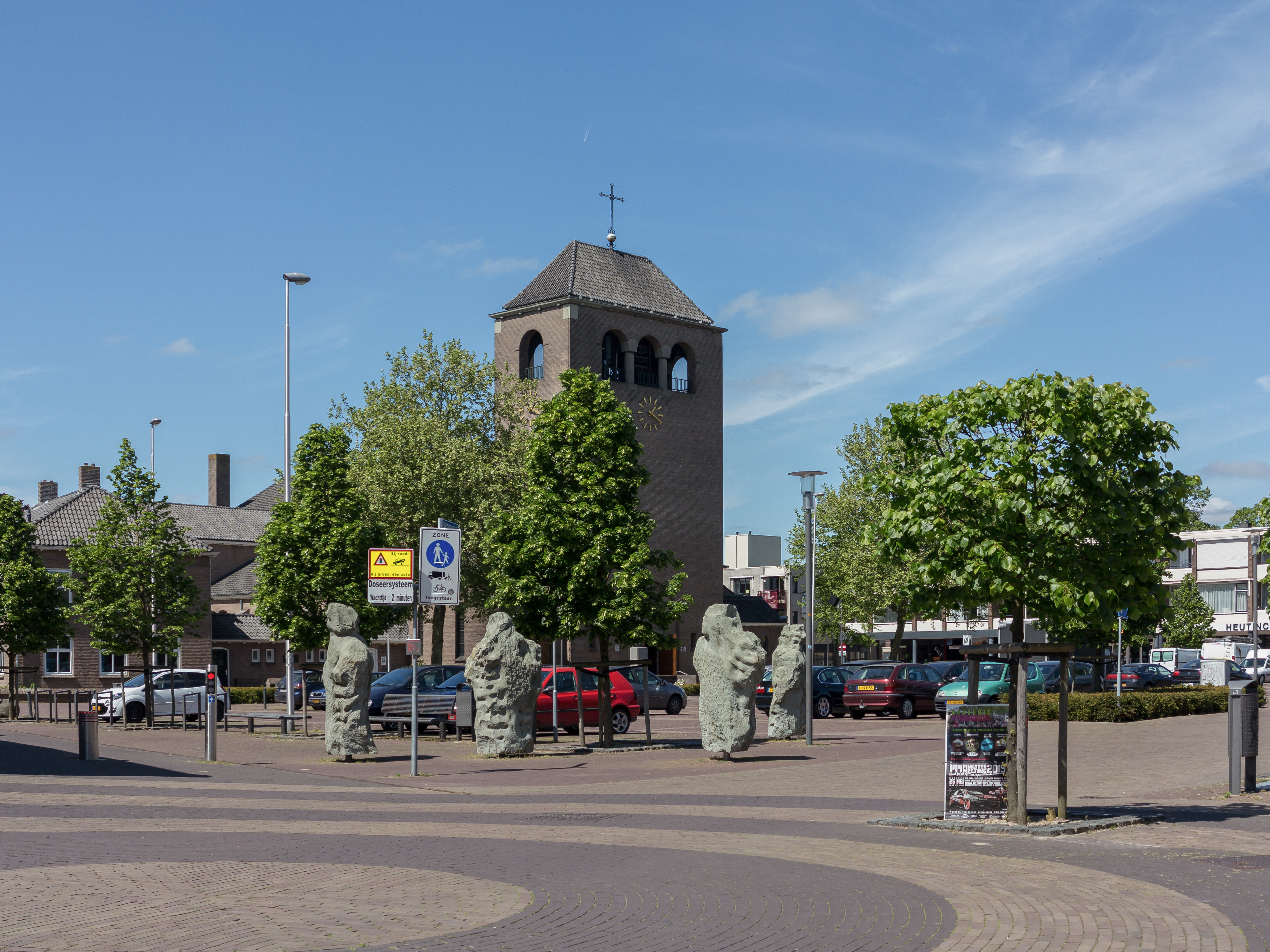 Ulft, church (de Sint Petrus en Pauluskerk) in the street